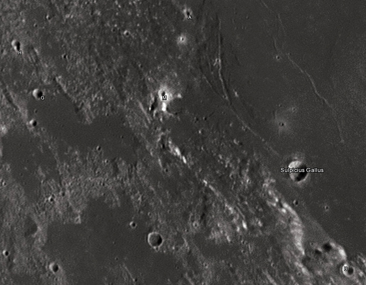 Sulpicius Gallus lunar crater as seen from Earth with satellite craters labeled